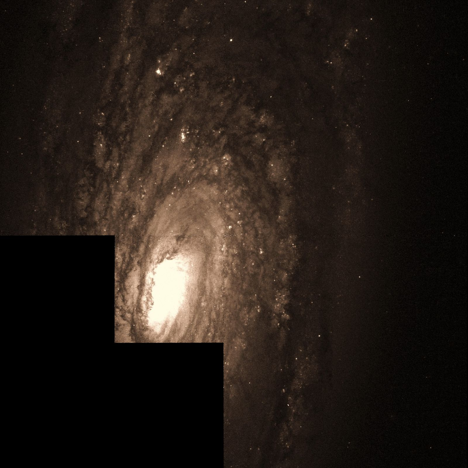 Messier 88 galaxy by Hubble space telescope, WFPC2, f547m, 2.5′ × 2.5′ field